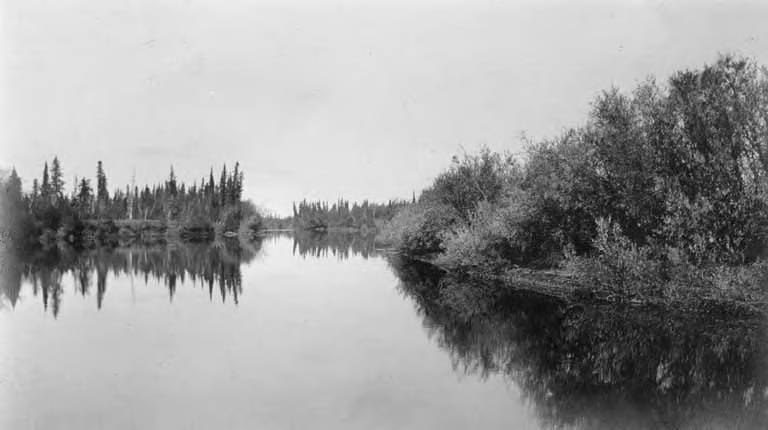 McPherson number: K553 PH Coll 495.2-68c Photograph from album created in circa 1914 by James Lennox McPherson, a civil engineer, that documents the activities of the Kuskokwim Reconnaissance survey party (known as Party No. 11 of the Alaska Railroad Commission expedition). The A.E.C. had assigned McPherson to research the feasibility of building a branch railroad from Anchorage west to the mining districts on the Kuskokwim and Iditarod Rivers. Subjects (LCTGM): Rivers--Alaska Subjects (LCSH): Iditarod River (Alaska)